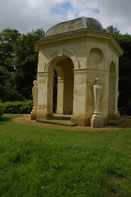 The Fane of Pastorial Poetry, Stowe